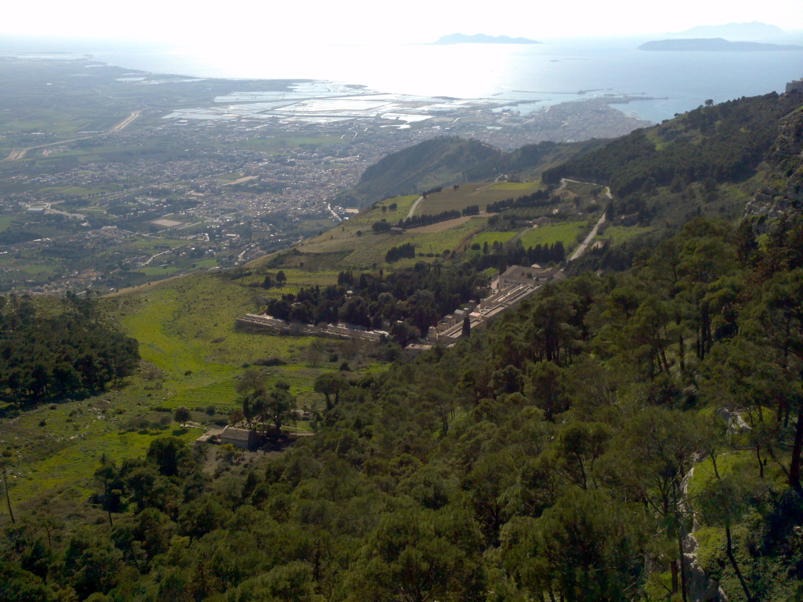 Overview from Riserva naturale integrale Saline di Trapani e Paceco. Right-hand-side habour and old town of Trapani.